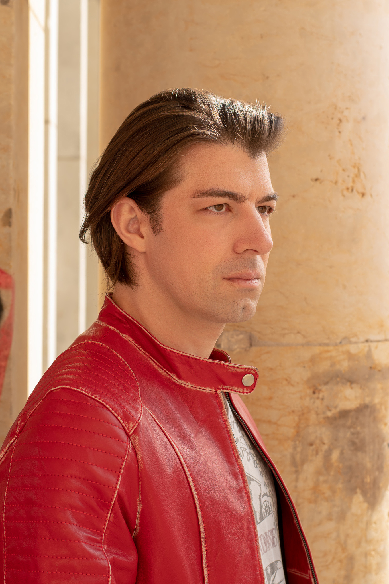 Andreas Kaplan, Professor of Marketing and Social Media / Dean and Rector of ESCP Europe